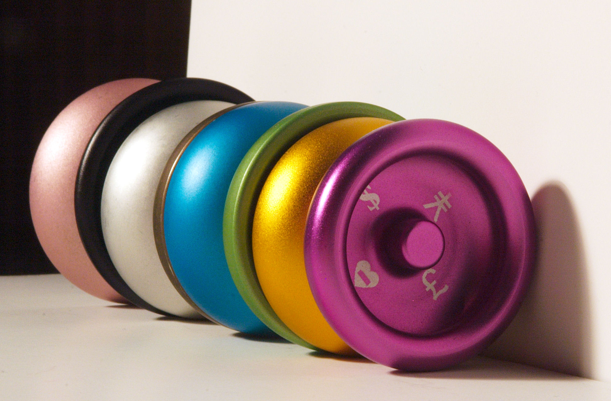 Yo-yos those are made of metal.